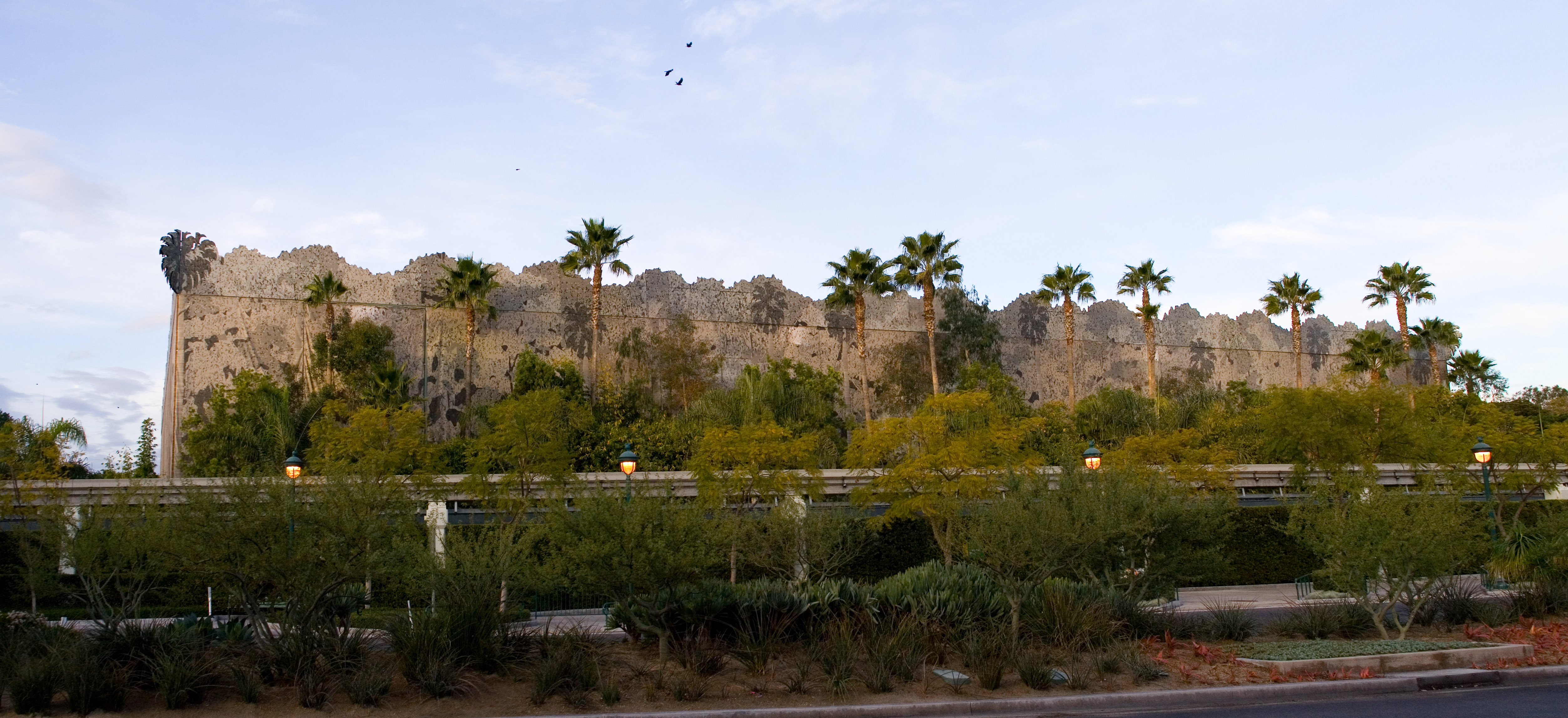 Panoramic shot of the Indiana Jones show building at Disneyland in Anaheim, California, taken from the tram stop by the uploader, Joe Cardello (aka Datameister). Can also be seen on Flickr at